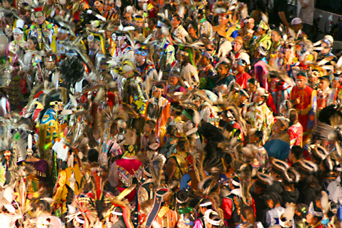 Gathering of Nations, Albuquerque, NM - April, 2007. I am the photographer. Joekoz451 16:06, 3 May 2007 (UTC)